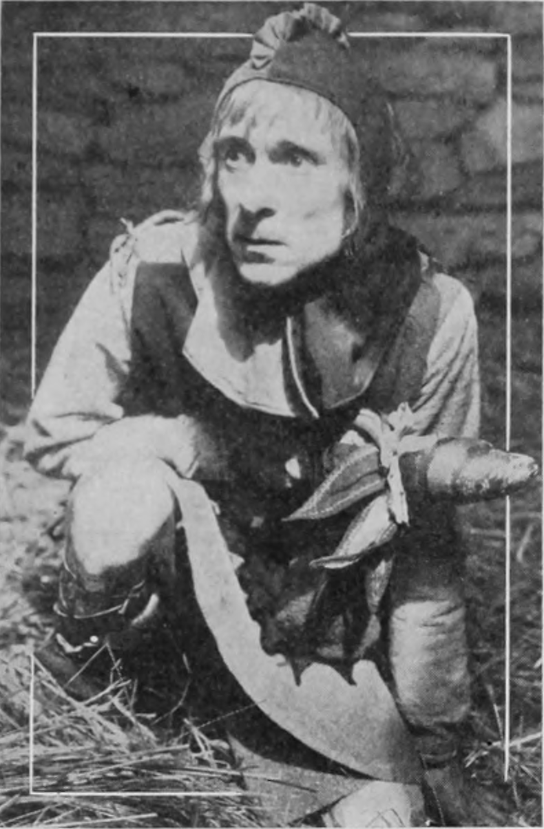 A promotional photo for King Lear (1916), showing Ernest Warde as the King's Fool.